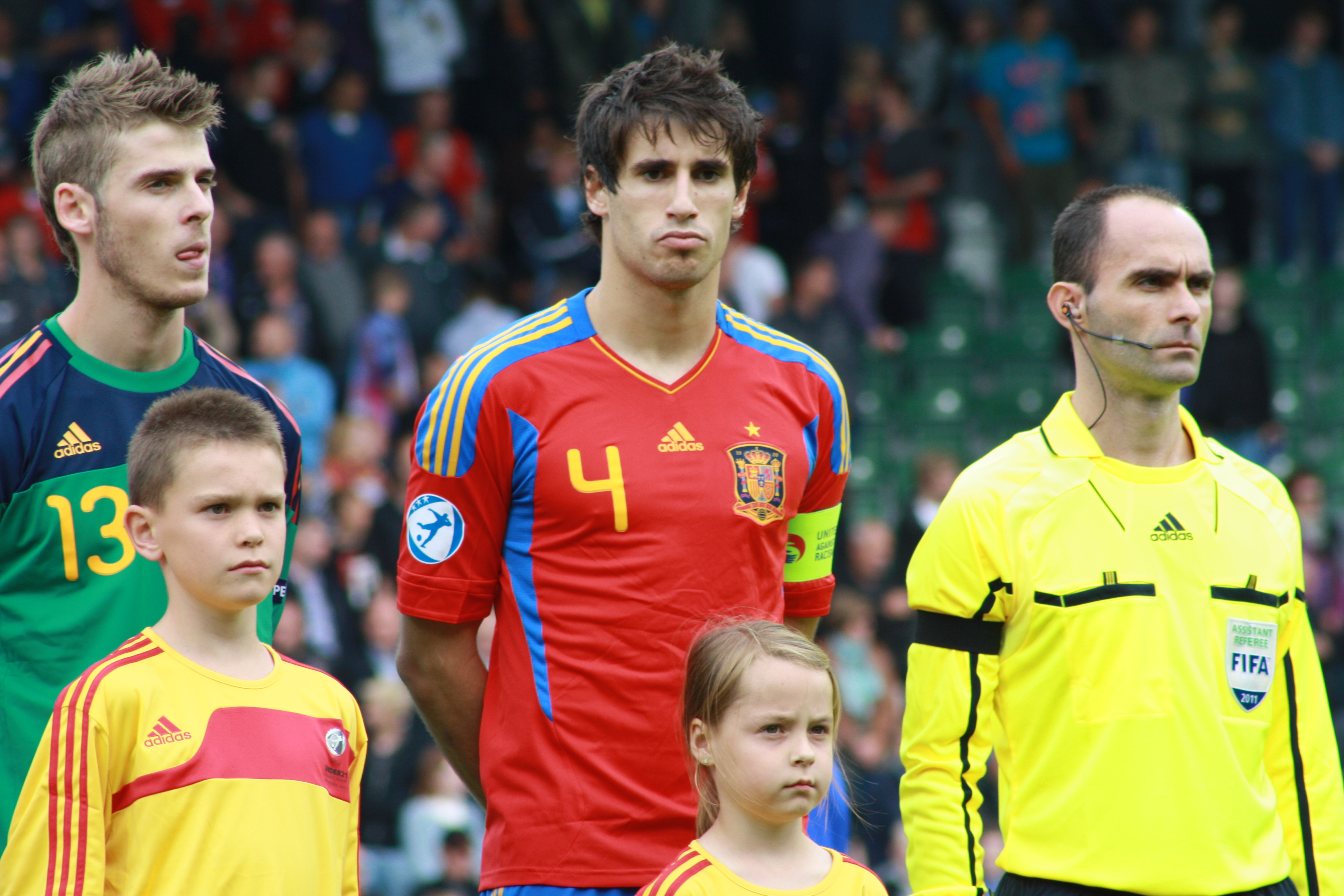 Spanish footballer Javi Martínez at the 2011 UEFA European Under-21 Football Championship.